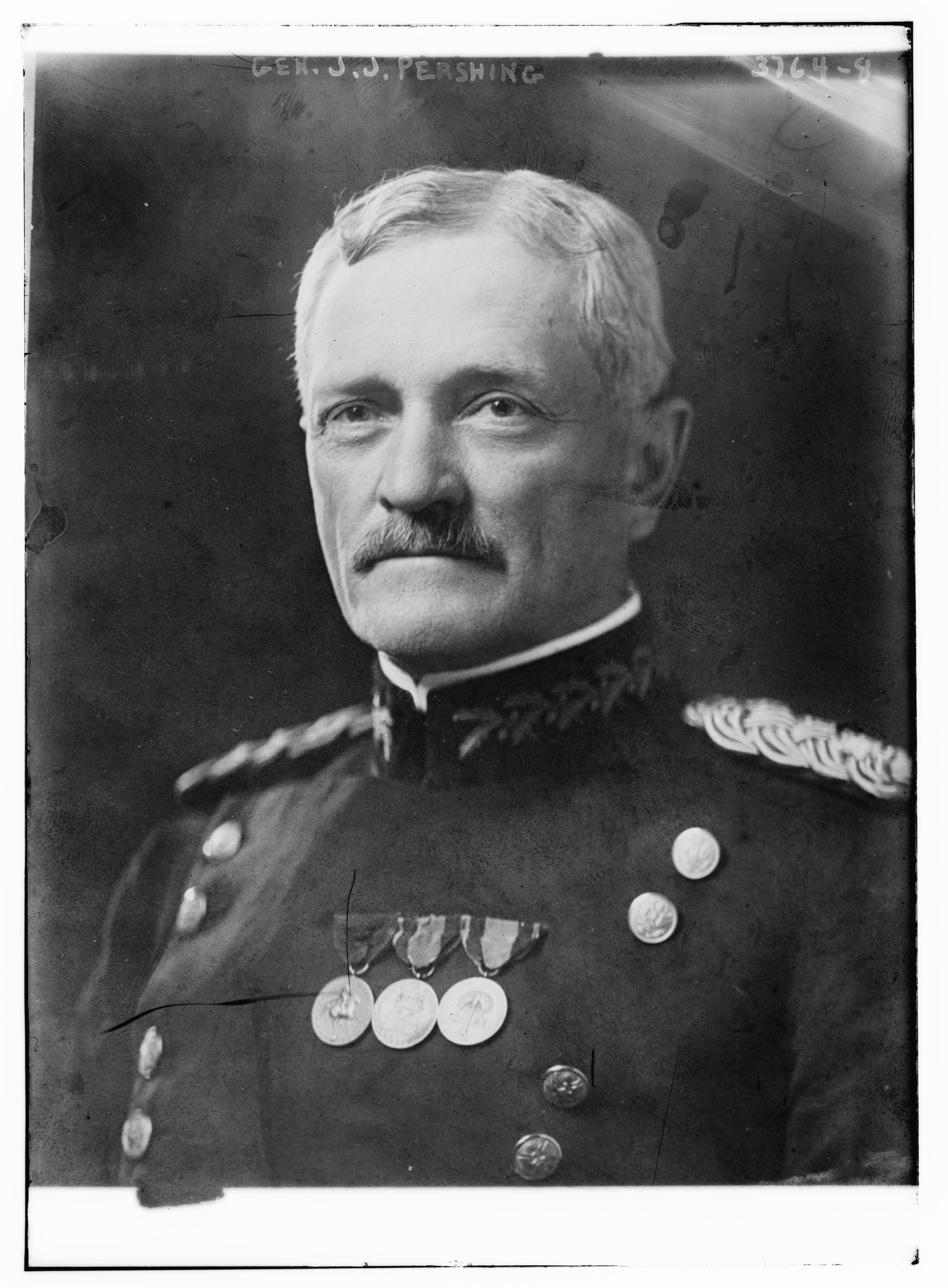 General John Joseph "Black Jack" Pershing, on his uniform from left to right 1. Indian Campaign Medal, 2. Spanish Campaign Medal, 3. Philippine Campaign Medal